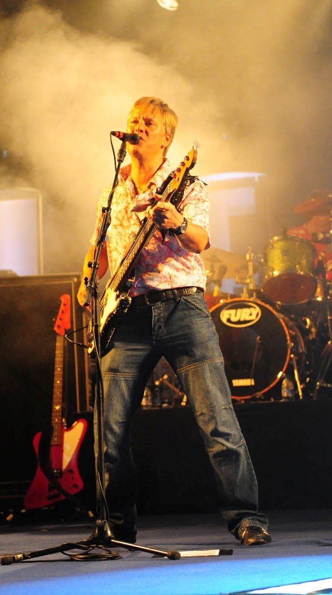 Hannes Schäfer at the farewell concert of the German rock band "Fury in the Slaughterhouse", in Hannover, Germany, August 2008